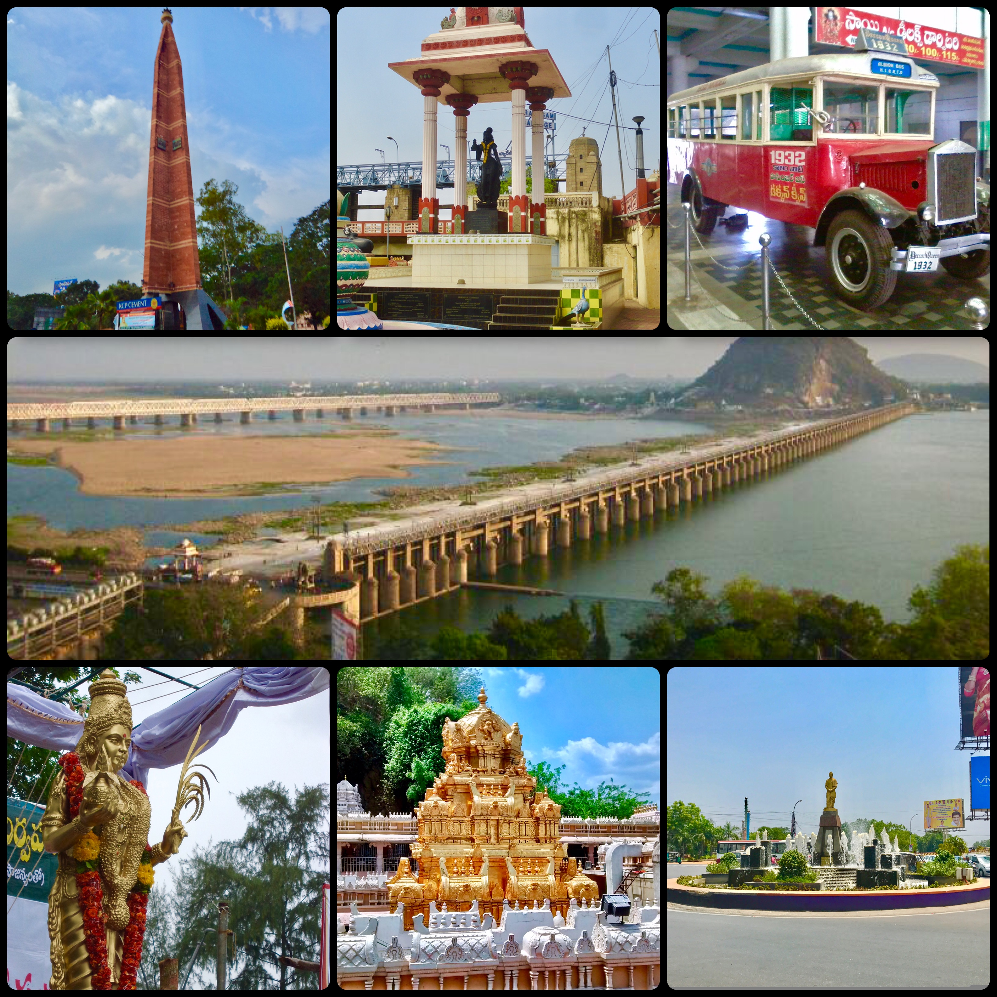 A montage pic of Vijayawada made of pics collected from Commons